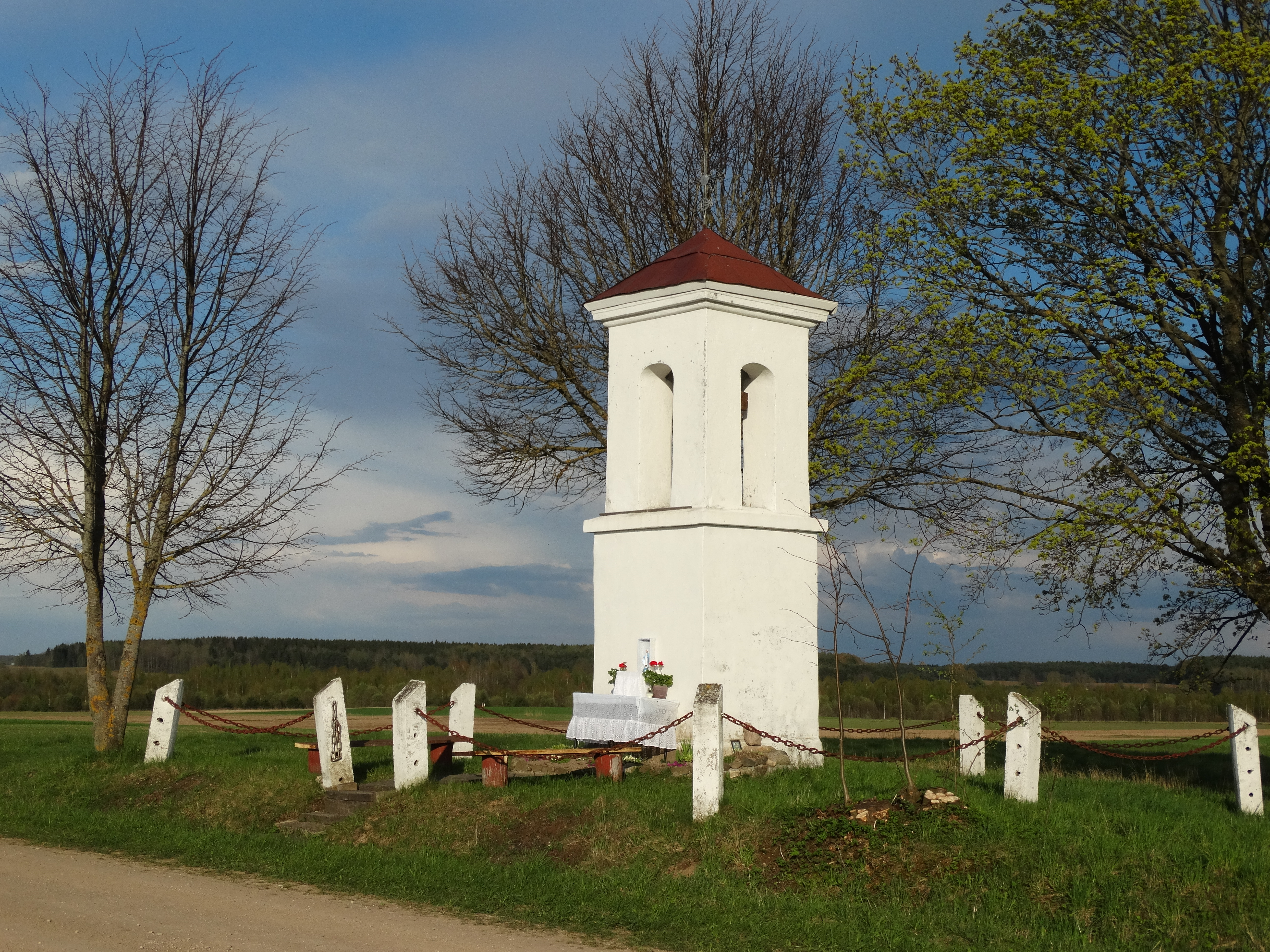 Wayside shrine, Tabariškės, Šalčininkai District, Lithuania